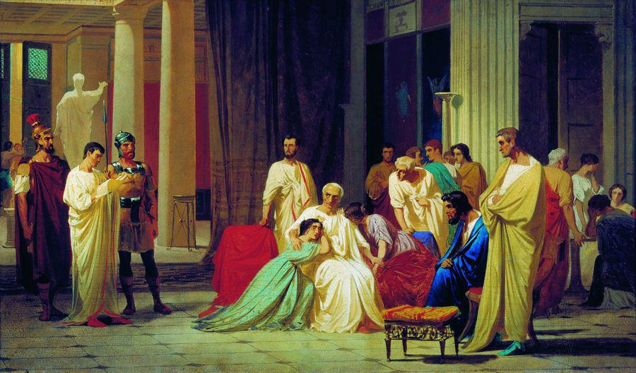 Fyodor Bronnikov. Readind of Thrasea Paetus death sentence (Russian: "Чтение смертного приговора Тразею Пету" or "Квестор читает смертный приговор Тразею Пету"). Before 1873